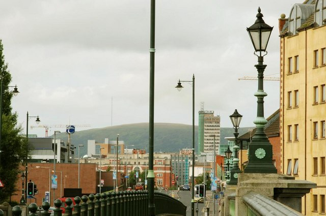 Victorian lampposts, Belfast. The Albert Bridge 191127 and 800129 across the Lagan opened in 1890. The parapets include Victorian lampposts, bearing plates showing that they were cast by A Handyside & Co of Derby and London. Those in the photo are on the northern (right) side of the bridge. Continue to 1707174.